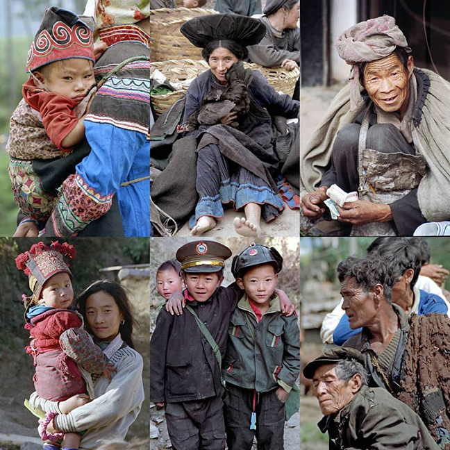 Black Nuosu ꆈꌠ Yi of Daliangshan 大涼山